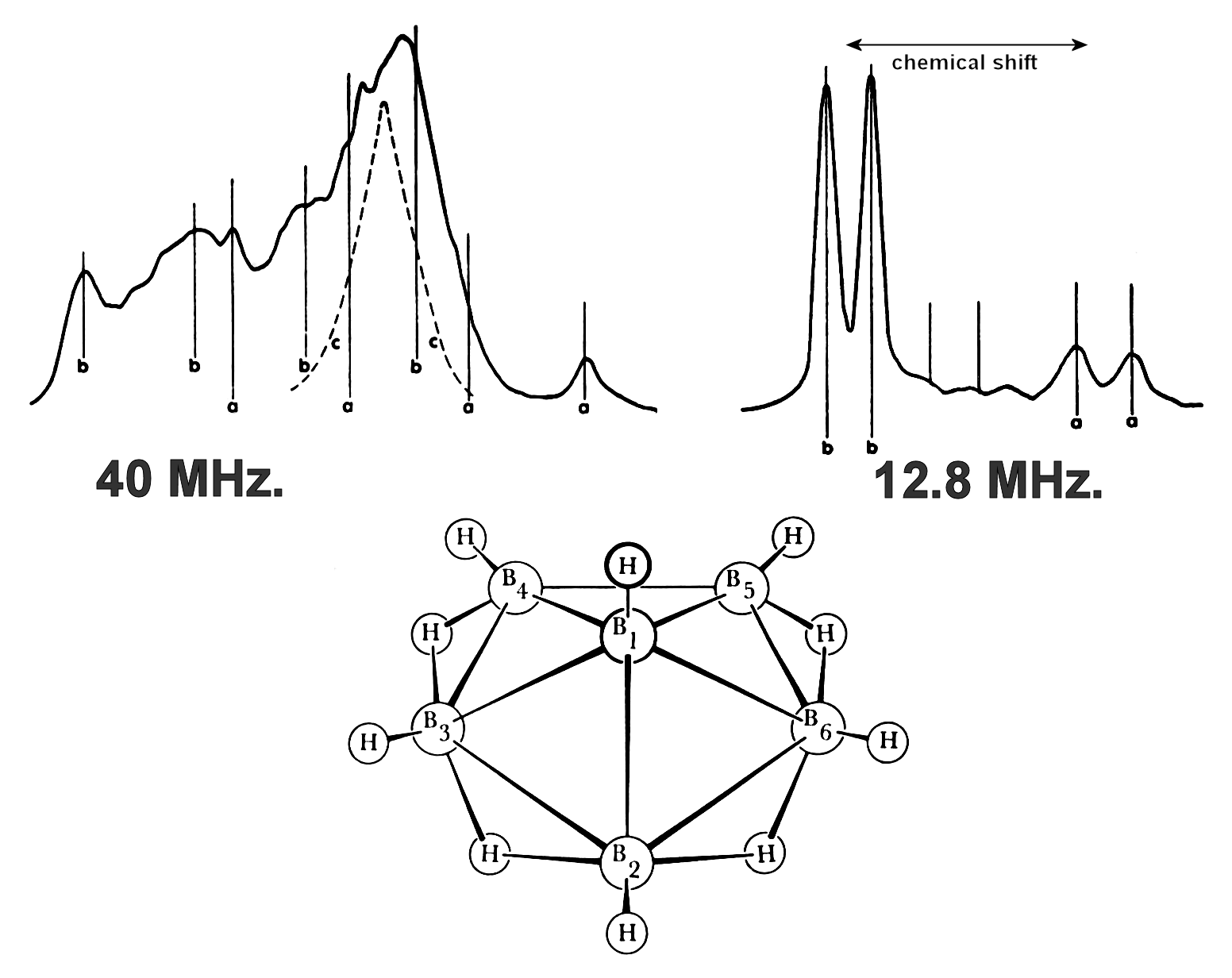 Nuclear Magnetic Resonance NMR spectrum and structure of hexaborane B6H10. NMR Interpretation of hexaborane 12.8 MHz. range (right) A simple example of the chemical shift is the "a" and "b" doublets (pairs of peaks). "A" and "b" are two groups of boron atoms in different electronic environments, which place the "a" doublet to the right of the "b" doublet in the spectrum. The relative peak heights of the "a" and "b" doublets suggest a 1:5 ratio of borons in one environment to borons in another environment. This suggests, combined with the molecular weight of the molecule: 5 boron atoms in one environment ("b") and 1 boron atom in another environment ("a"), which in turn suggests a pyramidal structure, which does appear in the atomic diagram. 40 MHz. range (left) "a" suggests a hydrogen at the apex, which is in the atomic diagram sticking straight up. "b" suggests hydrogens bonded to one boron each, which are in the atomic diagram sticking straight out from the edges. "c" suggests other bridge hydrogens, which is to say hydrogens in the middle of a boron-hydrogen-boron bonding arrangement like a hydrogen bridge between two boron shores, which are in a ring around the atomic diagram. (Williams1959) History X-ray diffraction was needed to be sure of the structure.(Hirshfeld1958) More complex molecules are more challenging, although in some cases common subgroups of atoms produce characteristic spectral patterns, which can be recognized. References (Williams1959) Wiliams, R.E., Gibbins, S.G., and Shapiro, I., J. Chem. Phys, 30, 333 (1959). (Hirshfeld1958) Hirshfeld, F. L., Eriks, K., Dickerson, R. E., Lippert, E. L., and Lipscomb, W. N., "Molecular and Crystal Structure of B6H10,” J. Chem. Phys. 28, 56 (1958).